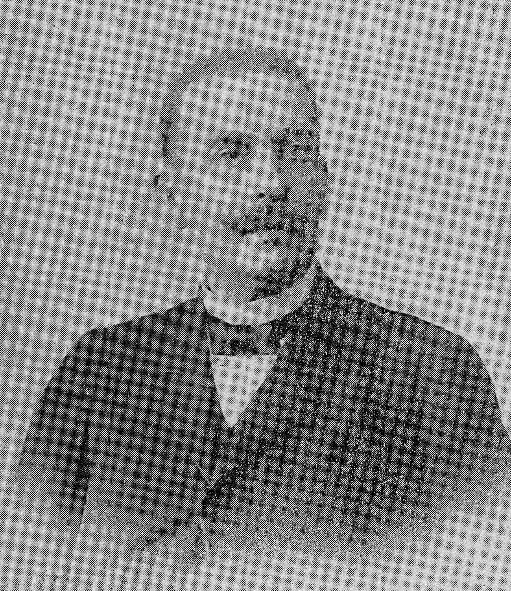 A photograph of Evgenije Dumča (1838-1917), a Serbian merchant of Aromanian origin, landowner and benefactor. Taken from the 1899 edition of the calendar Orao. Srpski (latinica): Fotografija Evgenija Dumče (1838-1917), srpskog trgovca cincarskog porekla, veleposednika i dobrotvora. Preuzeto iz izdanja kalendara Orao za 1899. godinu.